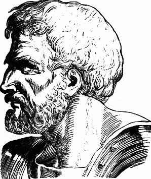 Marius